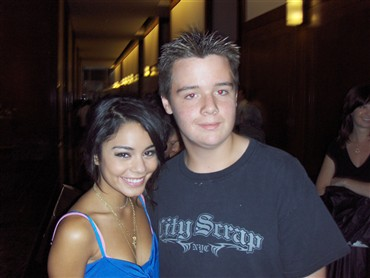 my pic with vanessa hudgens